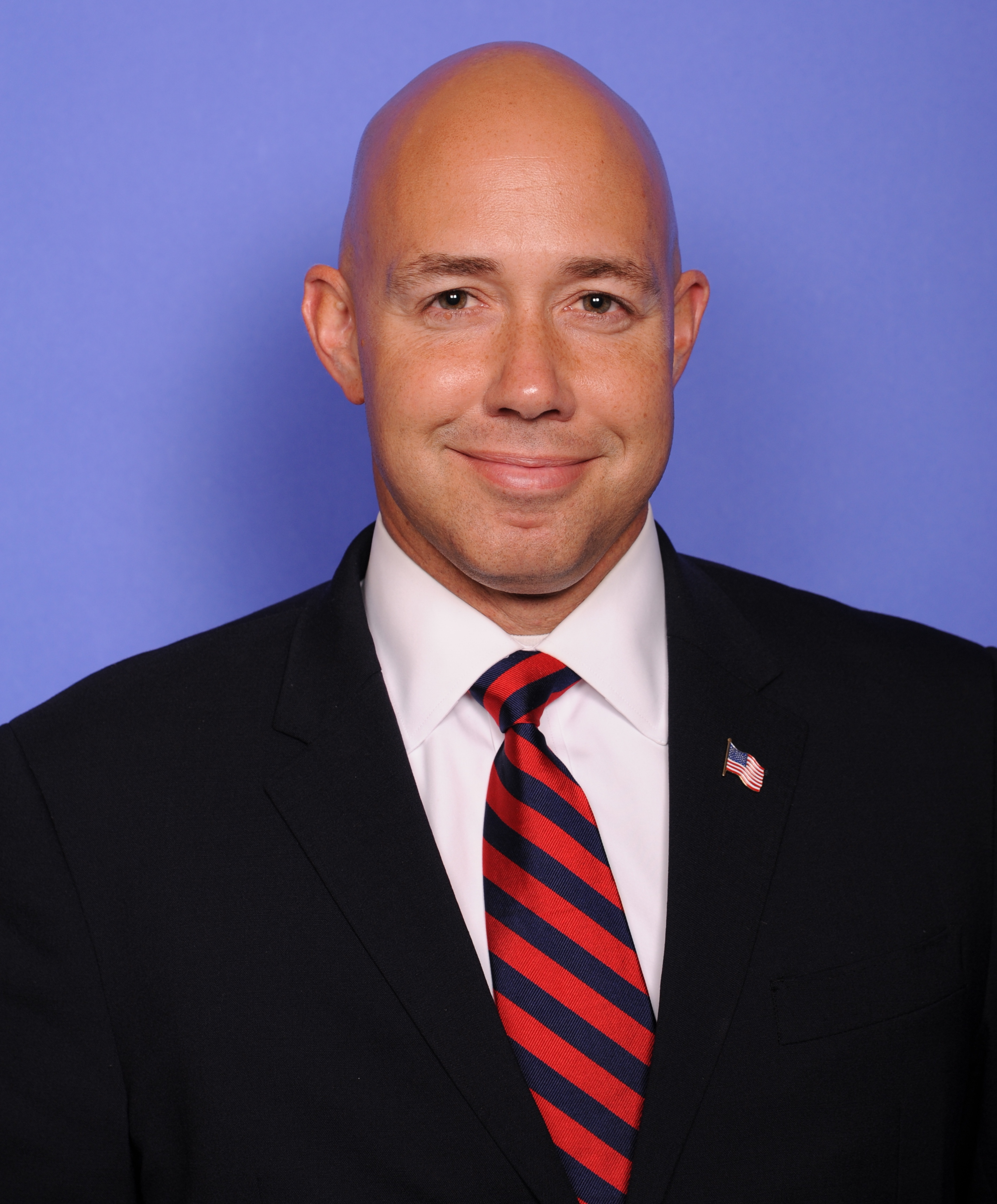 Brian Mast official photo, 115th Congress